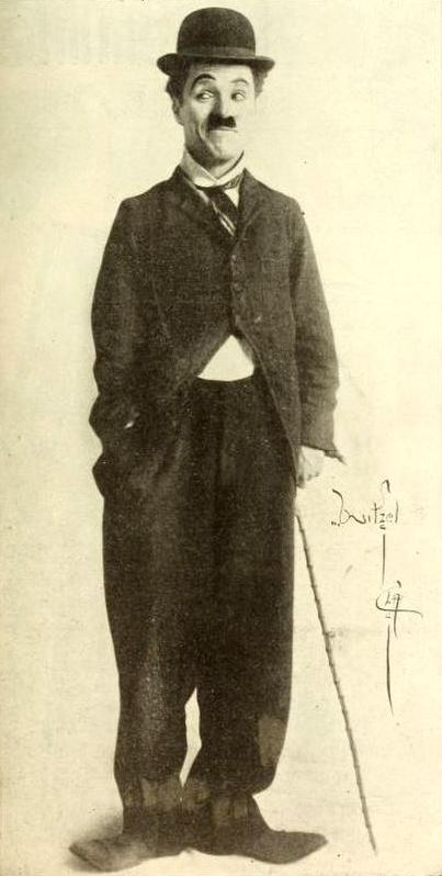 Actor Charlie Chaplin in his Tramp role, from an ad for reissued films on page 1255 of the May 31, 1919 Moving Picture World.